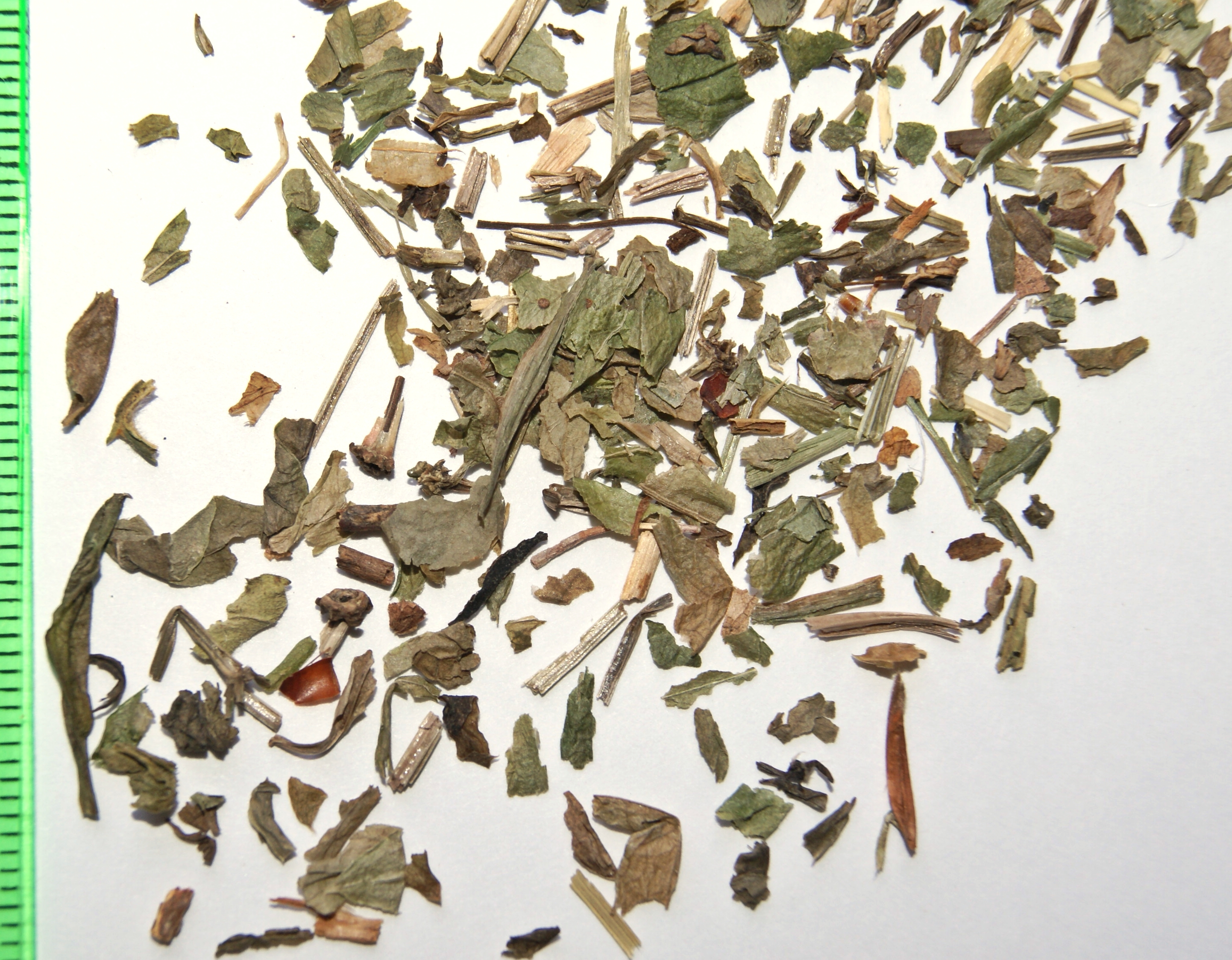 Galium odoratum